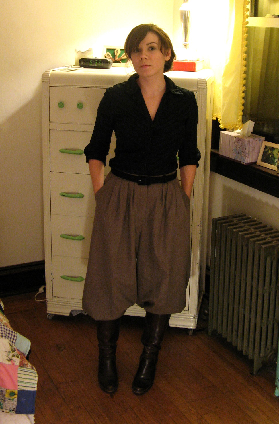 Fine looking Knickerbockers